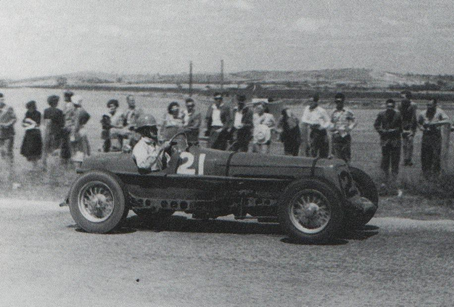 The Ballot Special of Jim Gullan contesting the 1950 Australian Grand Prix